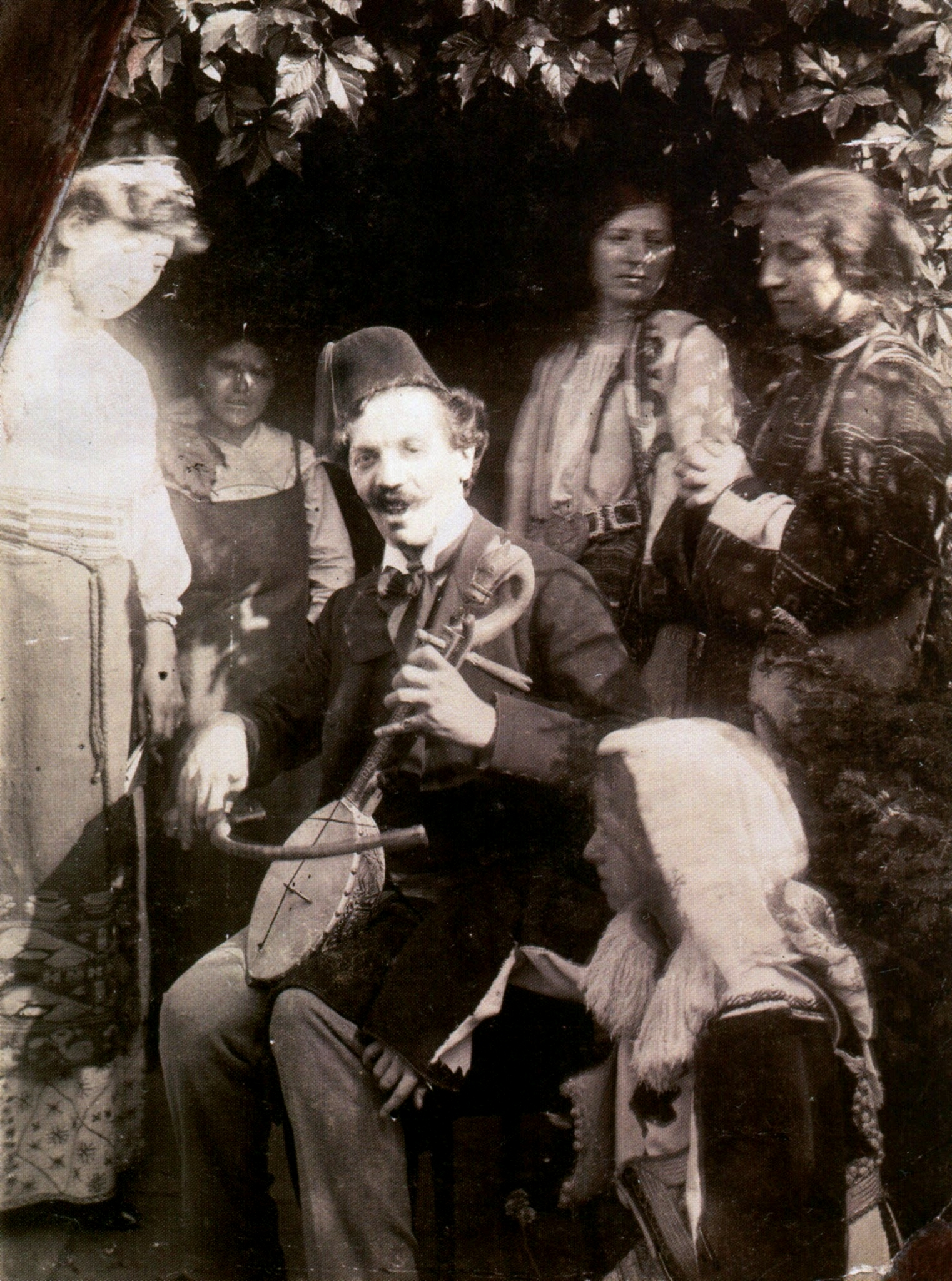 Nadežda and her sisters Jela, Zora, Anđa and her relative Danica. The youngest sister Draga is kneeling and mimicking a blind woman. The unnamed guslar wears a fez and otherwise clothing of urban origin. The Image is depicting the guslar in an archetypic Setting with Draga mimicking a blind woman leading the guslar from one place to another.